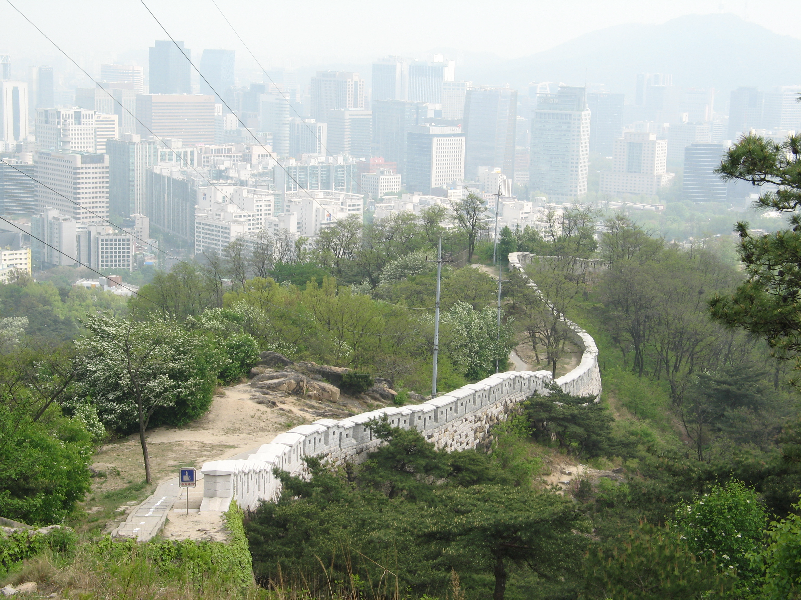 Mt. Inwangsan (인왕산) in Seoul, South Korea.